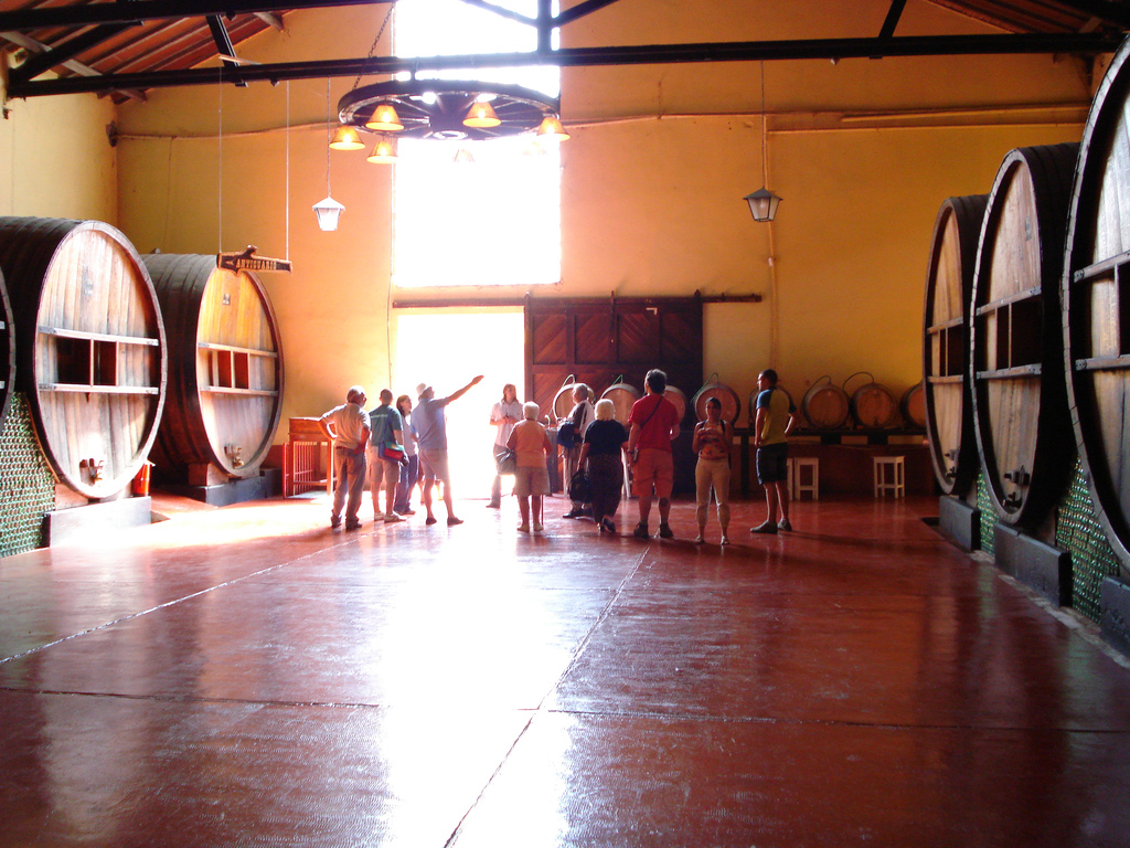 Baudron Bodegas y Viñedos (Baudron Wineries and Vineyards) have devoted themselves to vine-growing and wine-making with passion and family work for more than 60 years. It was founded in 1940 by a family of French and Italian immigrants who chose mendocinian lands to apply their experience of European vine-growers. Later, the heirs of don Luis Baudron continued the wine-making tradition their father had started in the last century threshold, until, in 1986, Rubén Leta purchases the company and becomes its new owner.